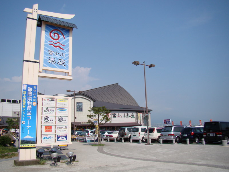 Michinoeki Fujikawa Rakuza, Fujikawa Service Area side